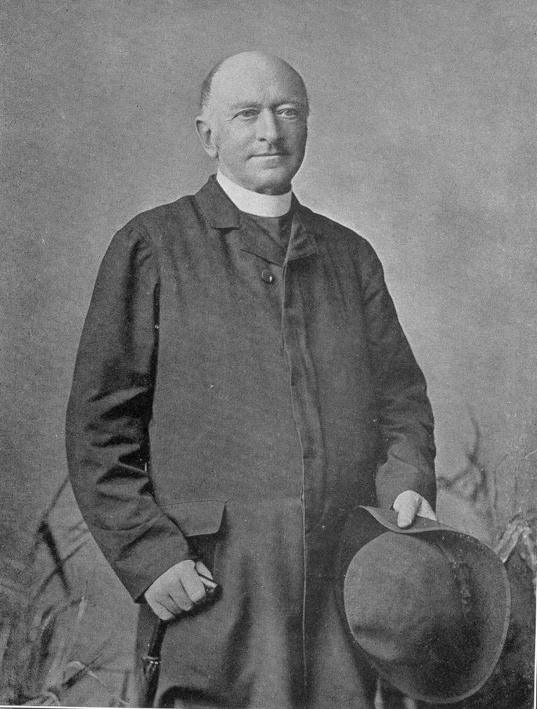 Father James Healy, renowned conversationalist and parish priest of Little Bray, County Dublin, Ireland.